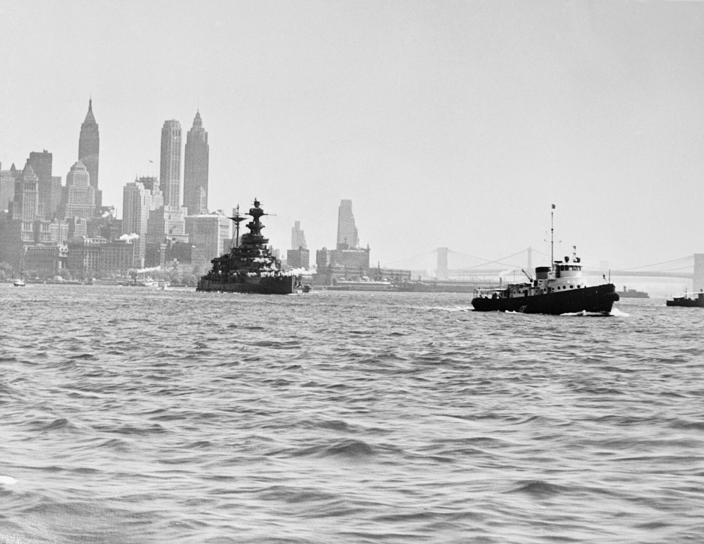 HMS MALAYA leaving New York Navy Yard after four months of repairs following a torpedo hit while on convoy escort duty, 9 July 1941. HMS MALAYA, preceded by a tug as she leaves, with New York in the background.